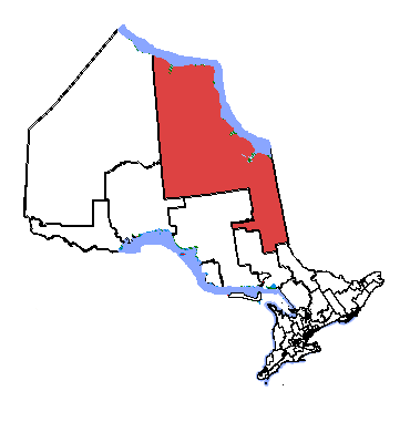 Map of the Timmins—James Bay electoral district. Based on Earl Andrew's maps, created by SimonP.